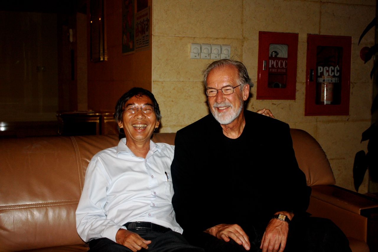 Thanh Thao with Paul Hoover at his home Quang Ngai, Vietnam